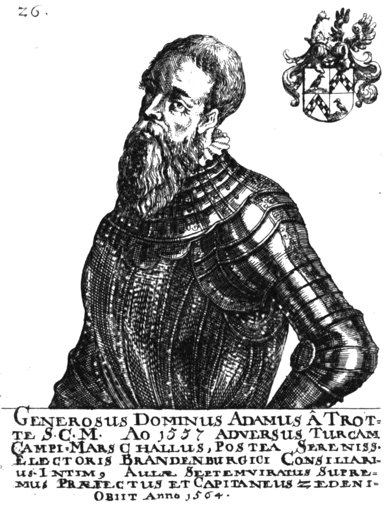 Image of the Imperial field marshal and Brandenburg Hofmarschall Adam von Trott (the Elder; † 1564)